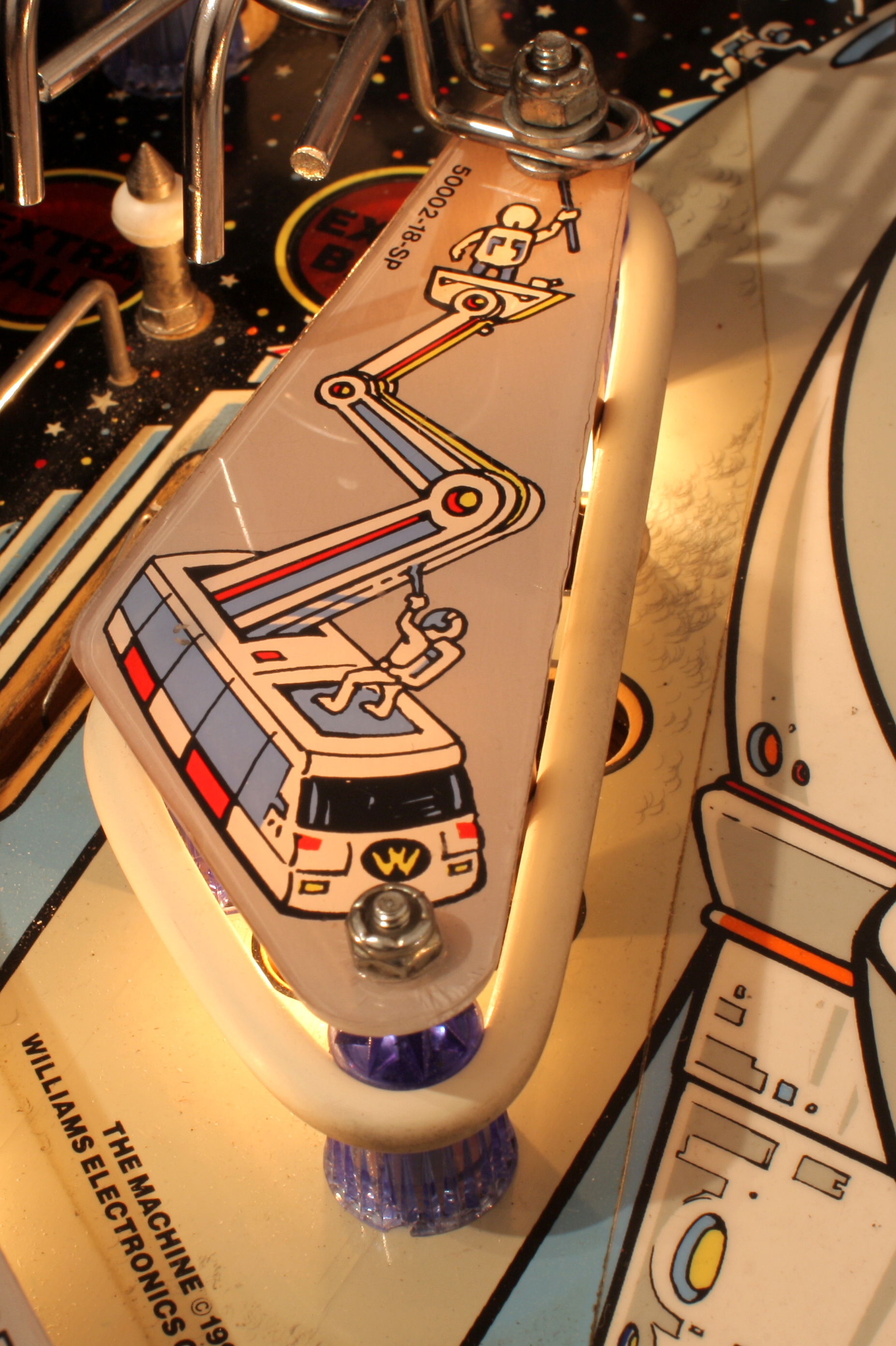 Left Slingshot of the Williams pinball game "The Machine - Bride of Pinbot"